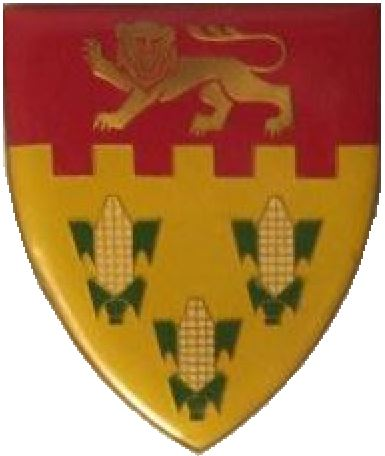 SADF era Ottosdal Commando emblem